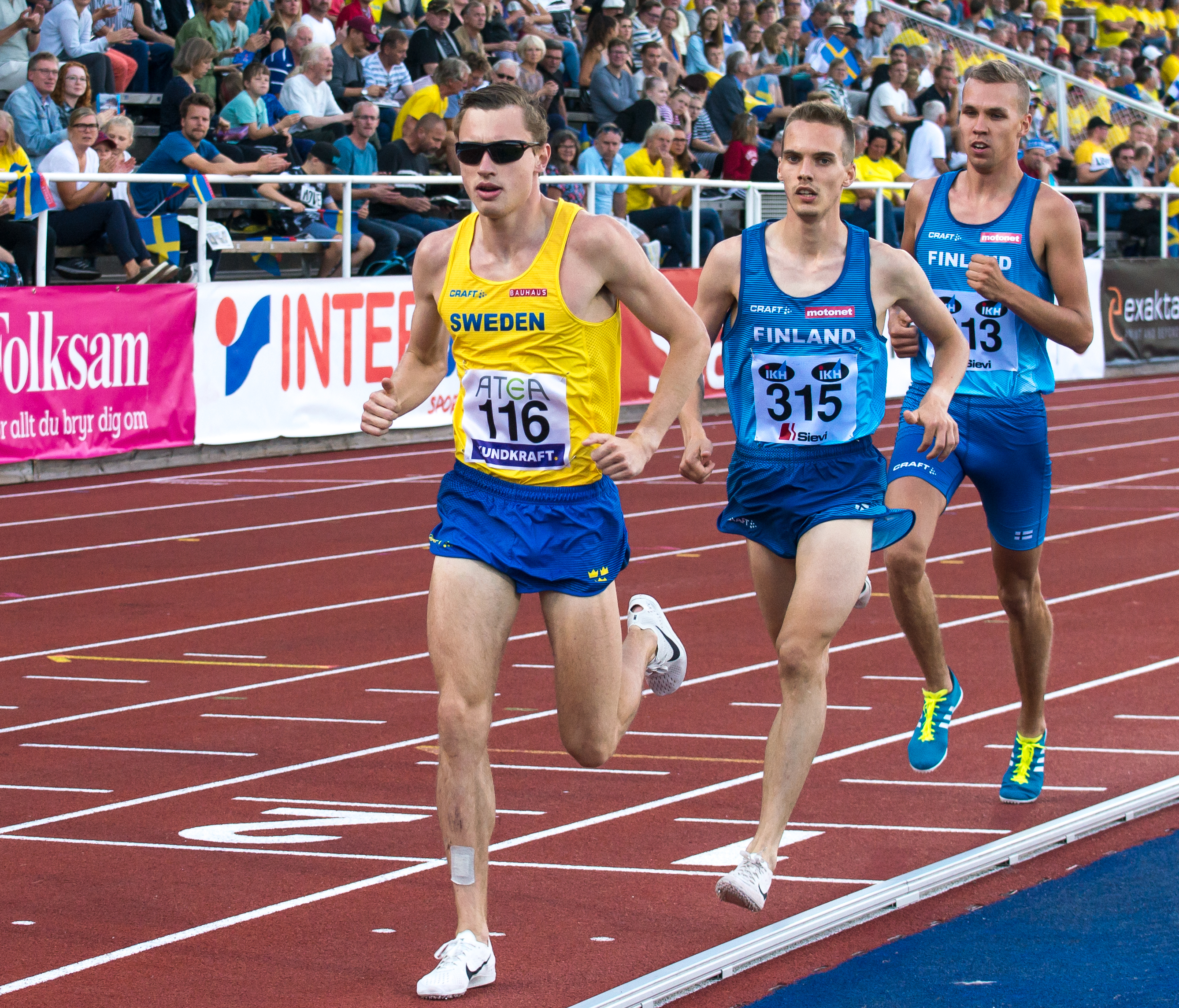 5000 metres during the Finland-Sweden athletics international 2019 at the Stockholm Stadium in August 2019. Kalle Berglund (116), Miika Tenhunen (315), Martti Siikaluoma (313). Berglund winner.